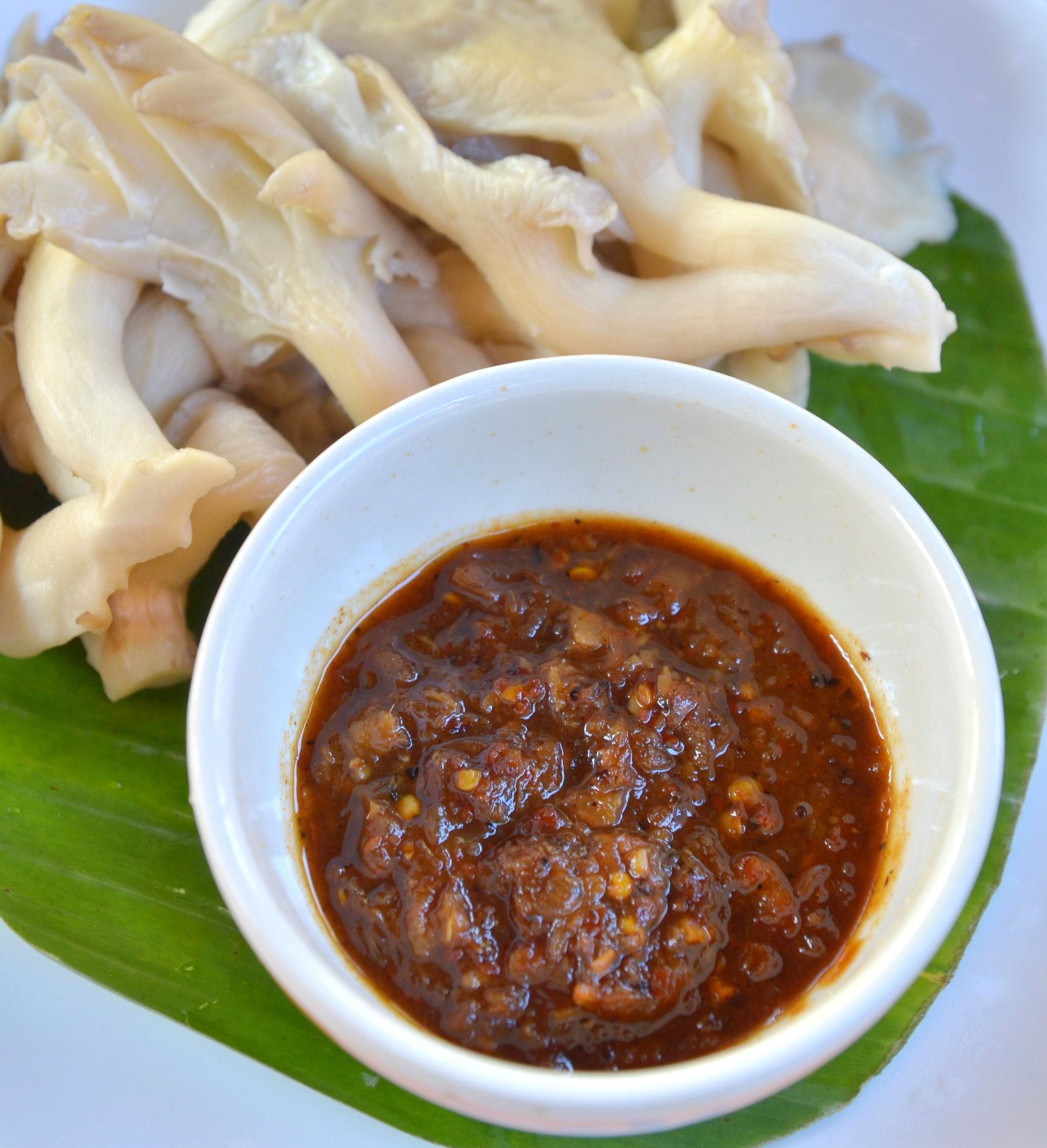 Nam phrik kha (Thai script: น้ำพริกข่า) is a Northern Thai fried chilli paste containing galangal (kha). It is often eaten, as seen here, with steamed het nang fa (Thai script: เห็ดนางฟ้า; lit. "fairy mushroom"; Pleurotus pulmonarius).